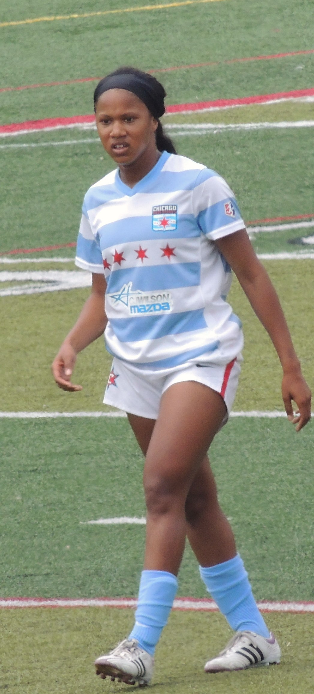 On July 26, 2014; ZakiyaBywaters playing for Chicago Red Stars against Houston Dash